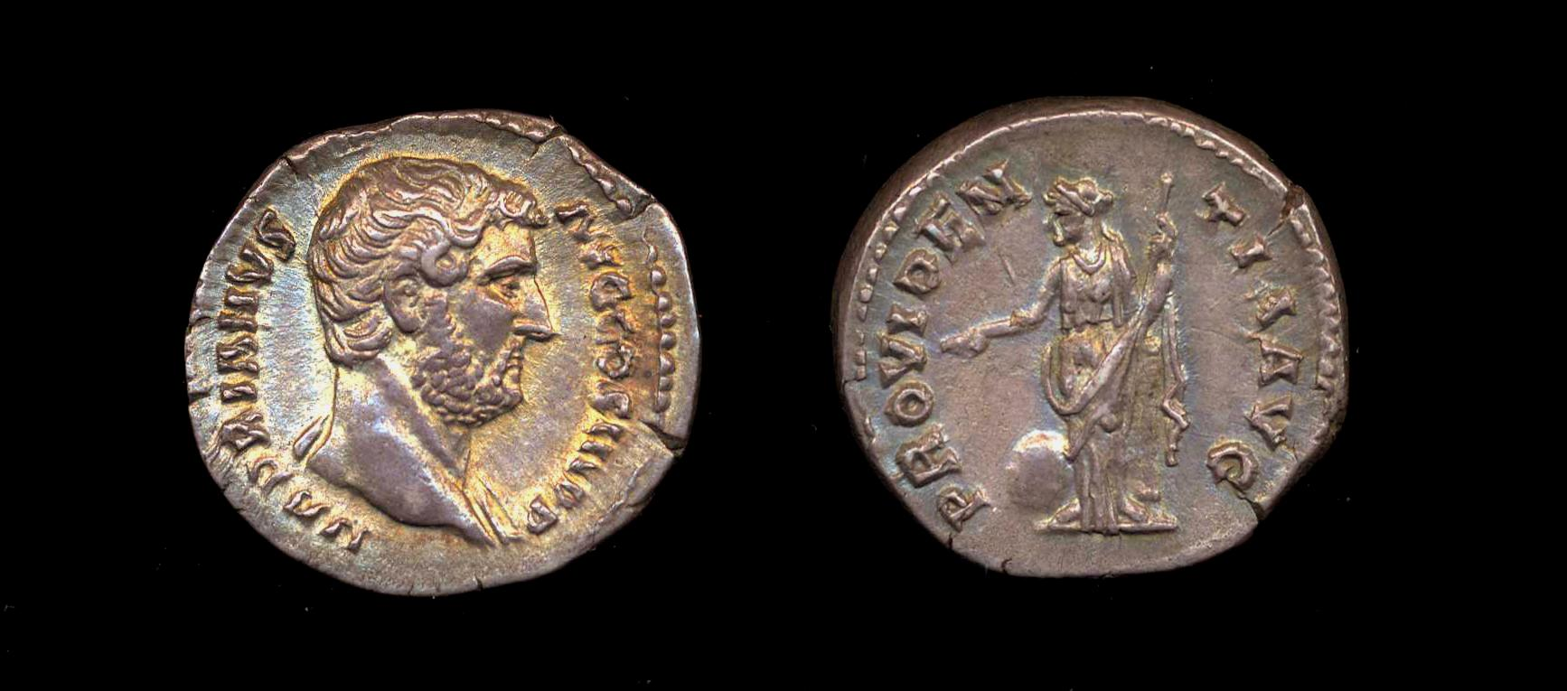 Hadrian, 1912 0740 136, BMC 699This was added from the site called under the name portableantiquities. See source for details. Hadrian: HADRIANVS AVG COS III PP Bare head right PROVIDENTIA AVG Providentia standing left, r. hand indicating a globe, l. hand w. a sceptre.